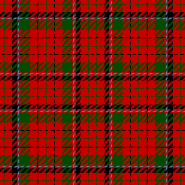 The MacNicol or Nicolson tartan appears in the Logan/MacIan work. This tartan should not be considered an authentic MacNicol or Nicolson tartan. Modern thread count: r12g2r12k8r2Az2r2g16r12k2r12g2